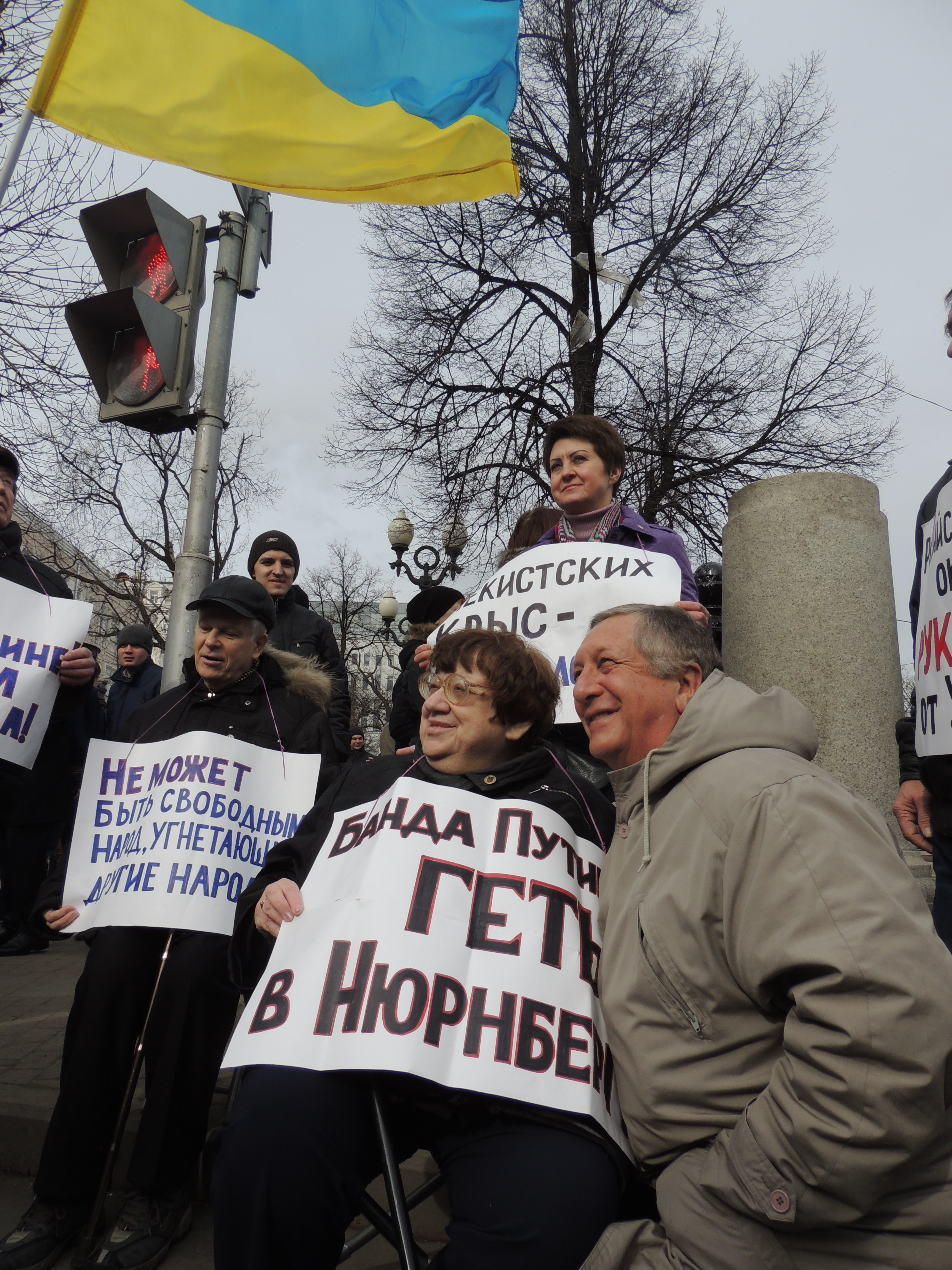 Valeriya Novodvorskaya and Konstantin Borovoy at March of Peace (2014-03-15, Moscow)